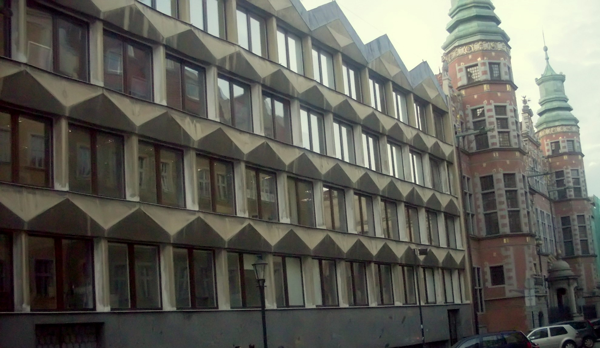 Backwall of Academy of Fine Arts in Gdańsk.jpg